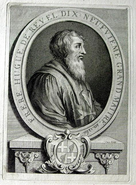 copper engraving, portrait of Hugh de Revel, entitled FRERE HUGUE DE REVEL DIX-NEUFVIEME GRAND MAITRE